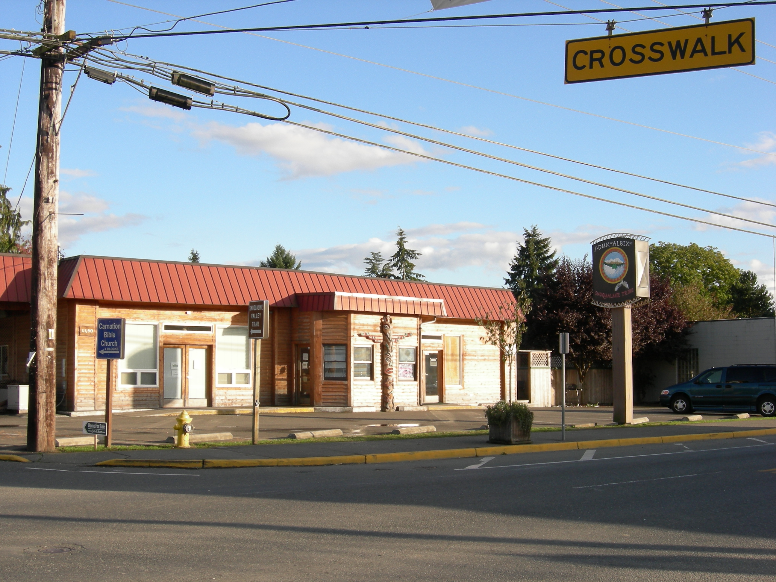 Office of the Snoqualmie Tribe (S·dukwalbixw), Carnation, Washington, USA.